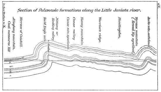 J. P. Lesley (1819 - 1903), State Geologist, Geological Survey of Pennsylvania. Source: Second Pennsylvania Geological Survey Maps 1893 Geologic Map of Pennsylvania [1]